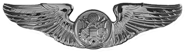 Full size USAF enlisted aircrew occupational badge for dress uniform. Photo created by the United States Air Force.